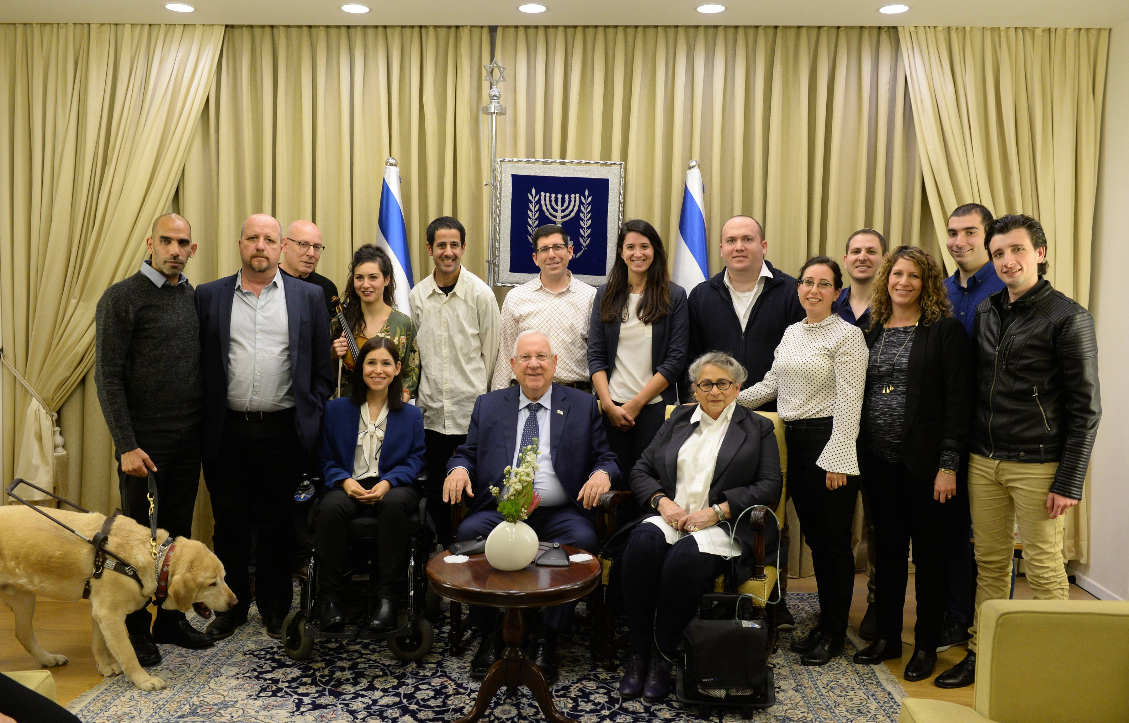 President of Israel, Reuven Rivlin, and his wife hosting a special session entitled "Manhigut VeMugbalut" ("Leadership and Disability"), in which a study and survey of public attitudes towards leadership of people with disabilities were presented. Tuesday, January 16, 2018. Photo credit: Haim Tzach / GPO.